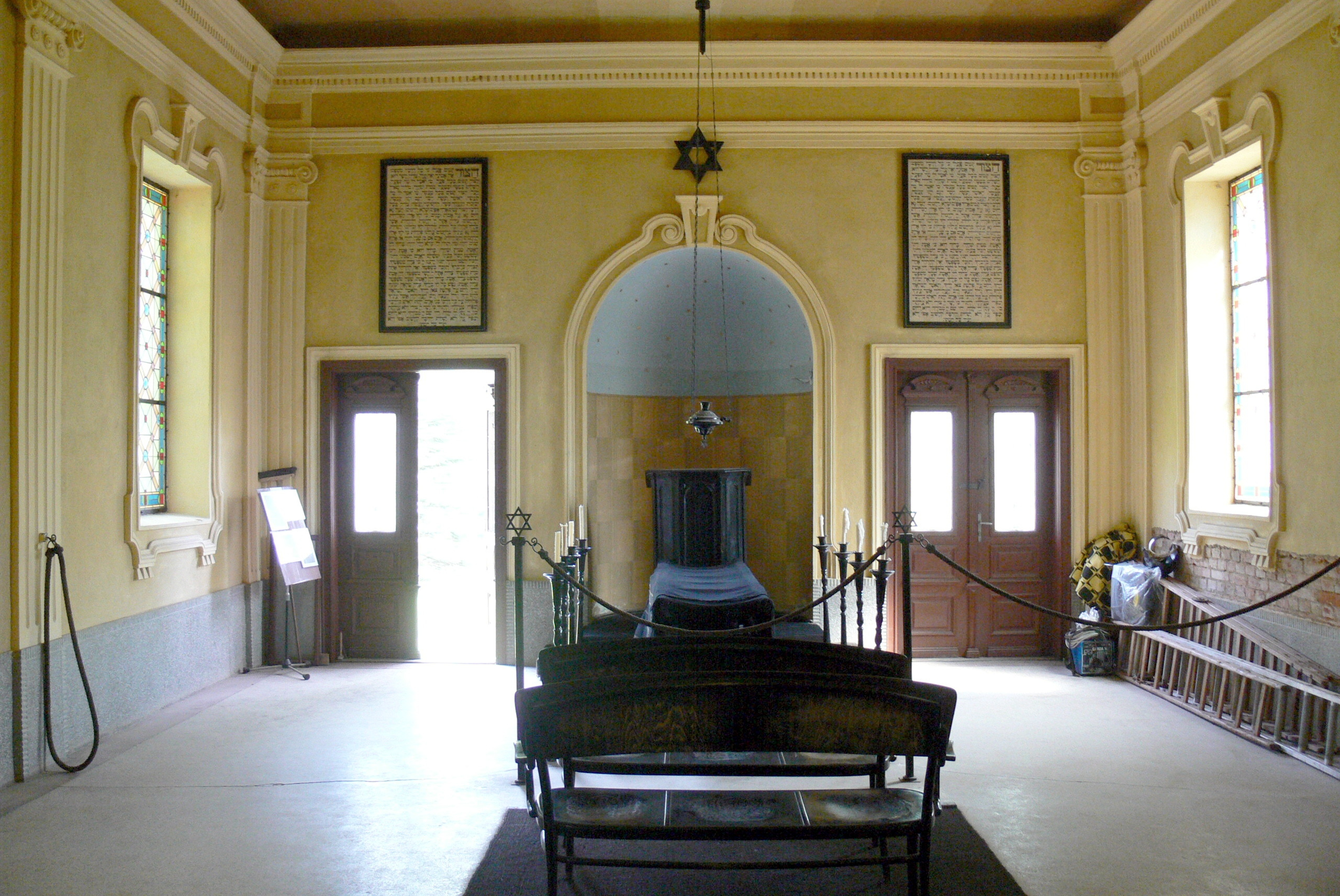 Třebíč ( Czech Republic ). Jewish ceremonial hall ( 1903 ) - Interior.